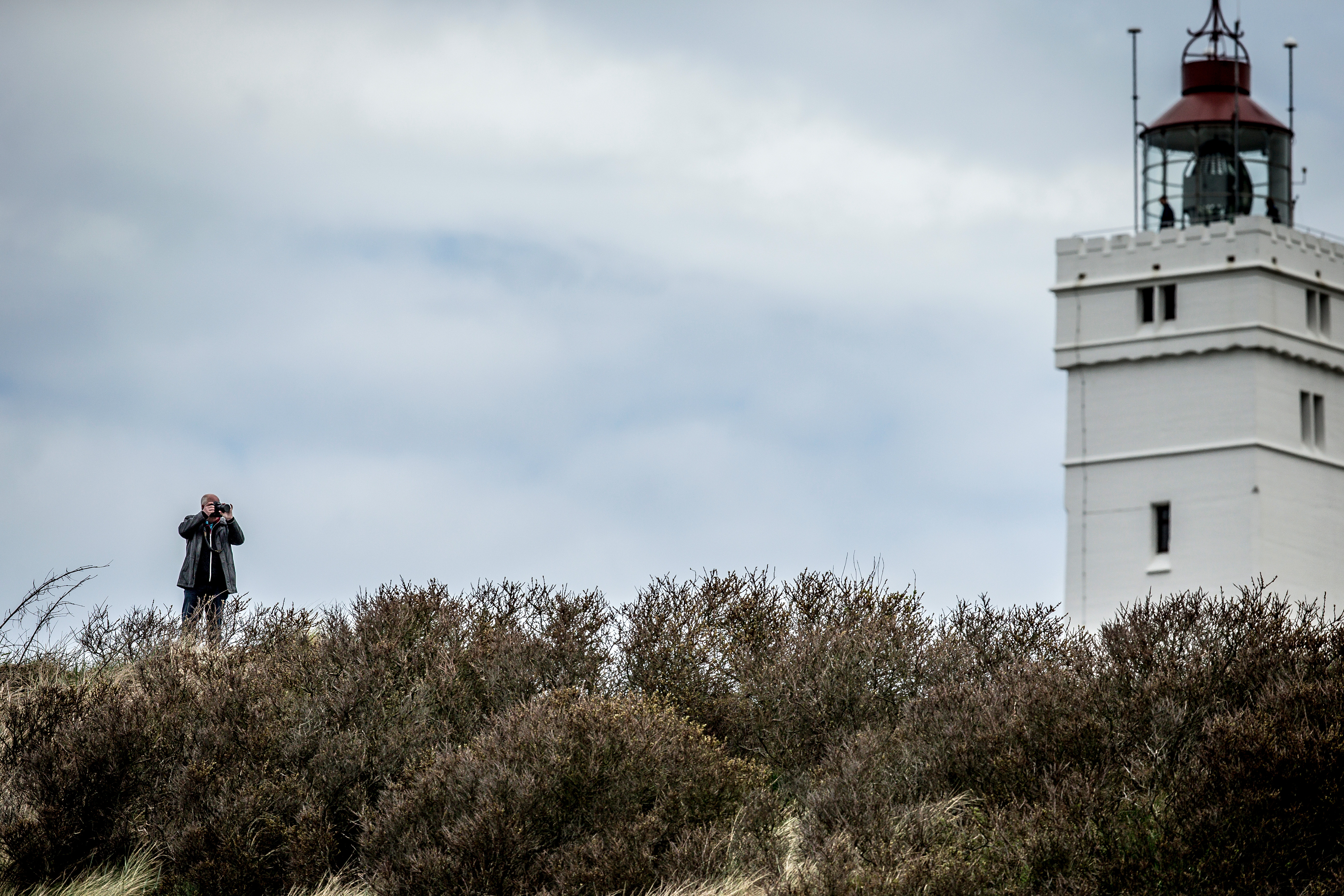 Top half of the lighthouse in Blåvand(Varde) with a photographer taking a picture